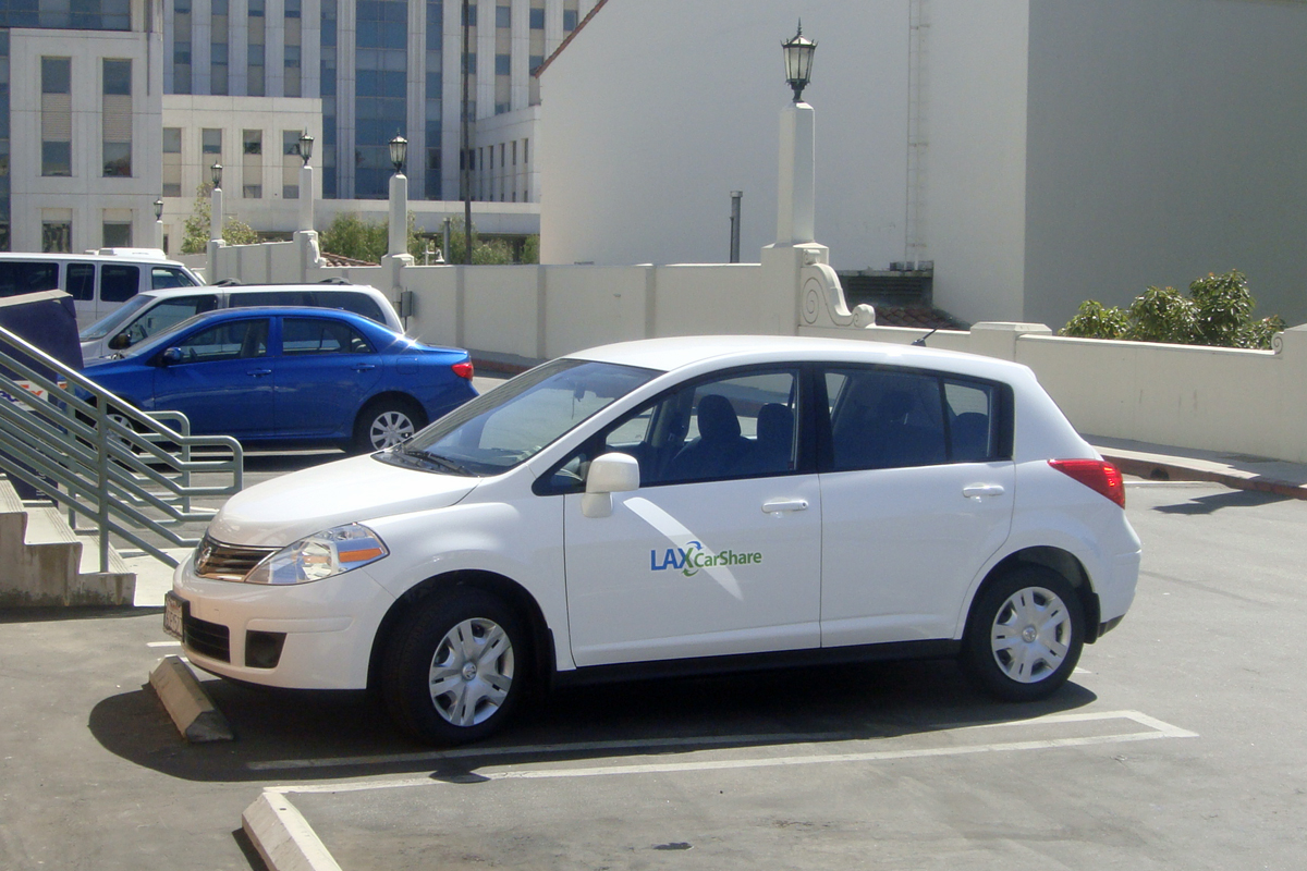 A LAX CarShare vehicle at Union Station, Los Angeles, CA